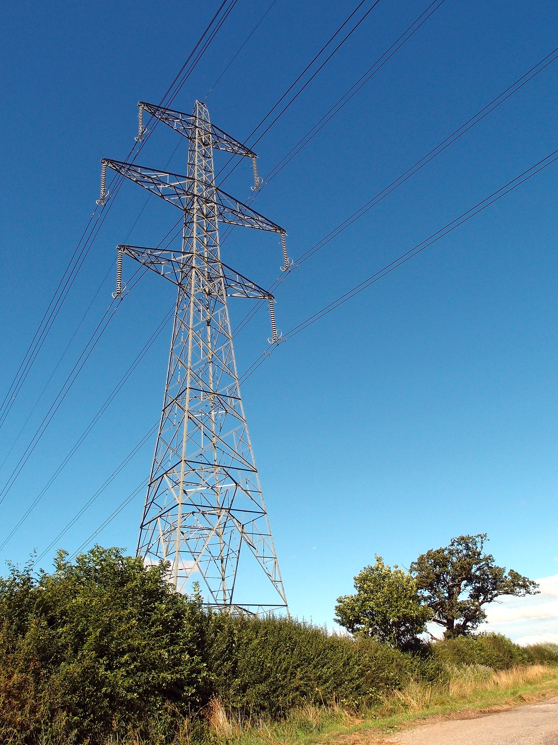 Electricity pylon in the Vale of Mowbray